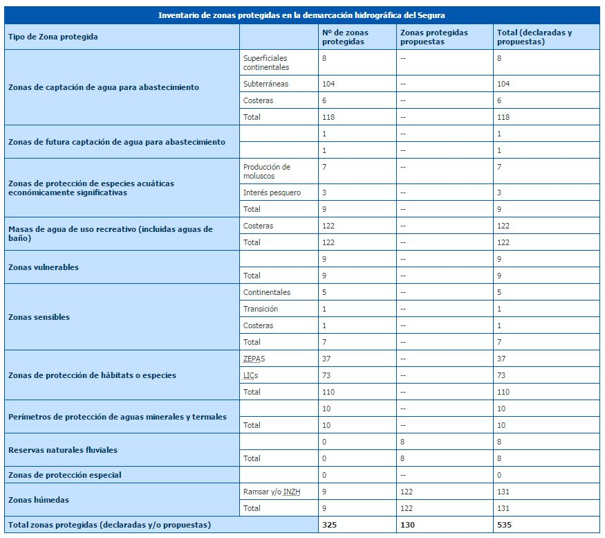 Inventario de zonas protegidas en la demarcación hidrográfica del Segura